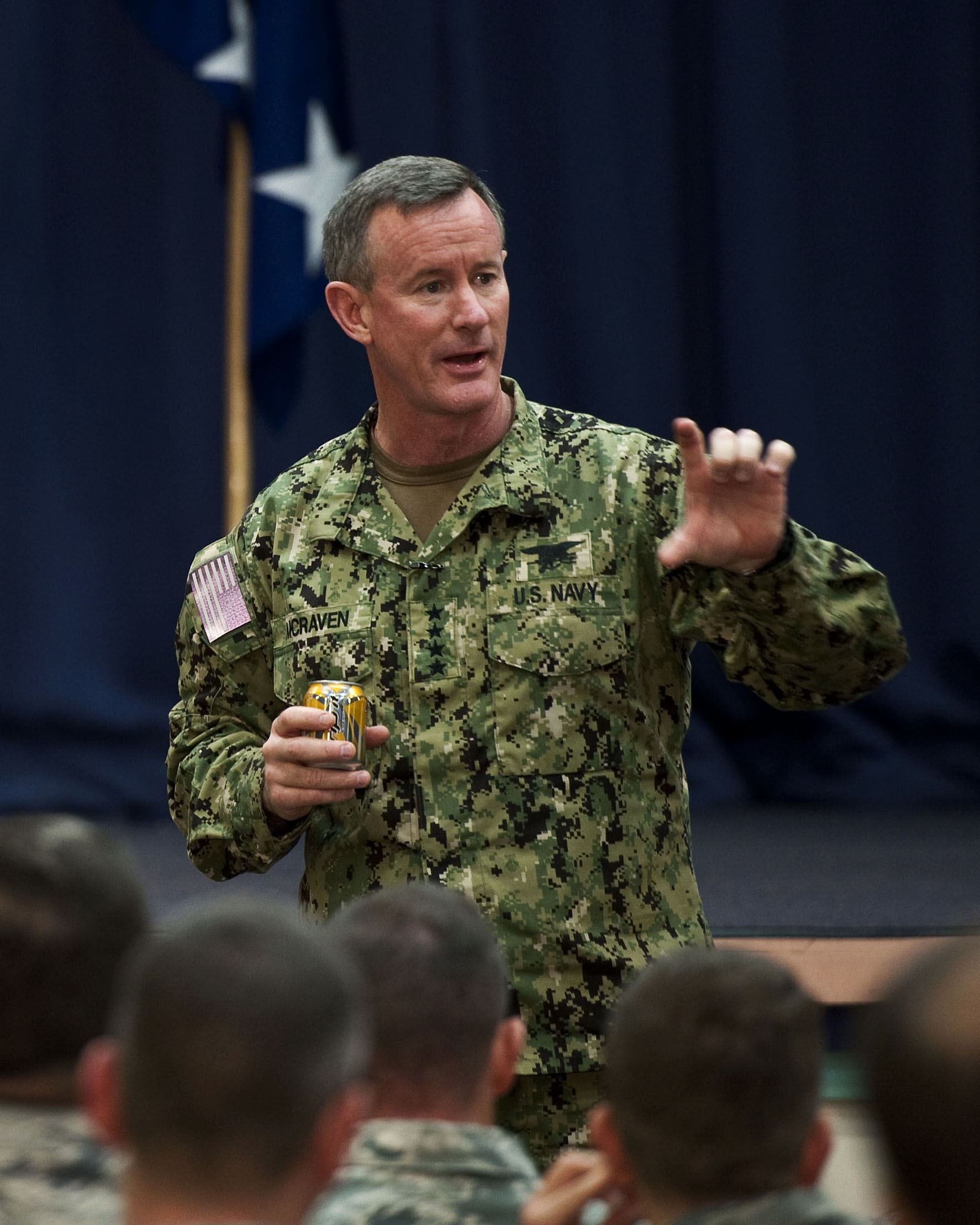 U.S. Navy Adm. William_H._McRaven, commander of the U.S. Special Operations Command, speaks to special operations commanders during a commander's call at King Auditorium on Hurlburt Field, Fla., Jan. 30, 2012. The admiral is the ninth commander of USSOCOM, headquartered at MacDill Air Force Base, Fla.